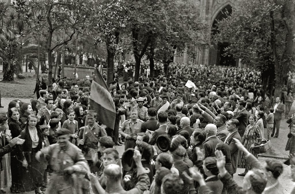 Donostia-San Sebastián] cathedral following the fall of the city to the rightist rebels on 13 September 1936